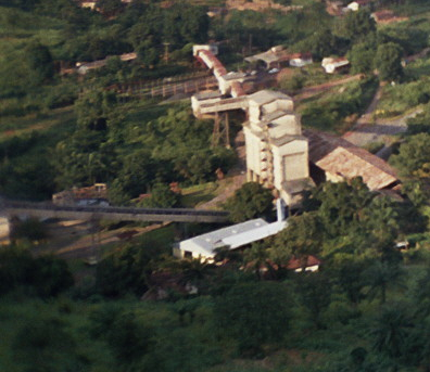 The picture of the Iva Valley coal mine from the hills on the west side of Enugu. Igbo: Onyonyo Iva Valley coal mine, shí ugwu nor na odida anyanwu Enugu.